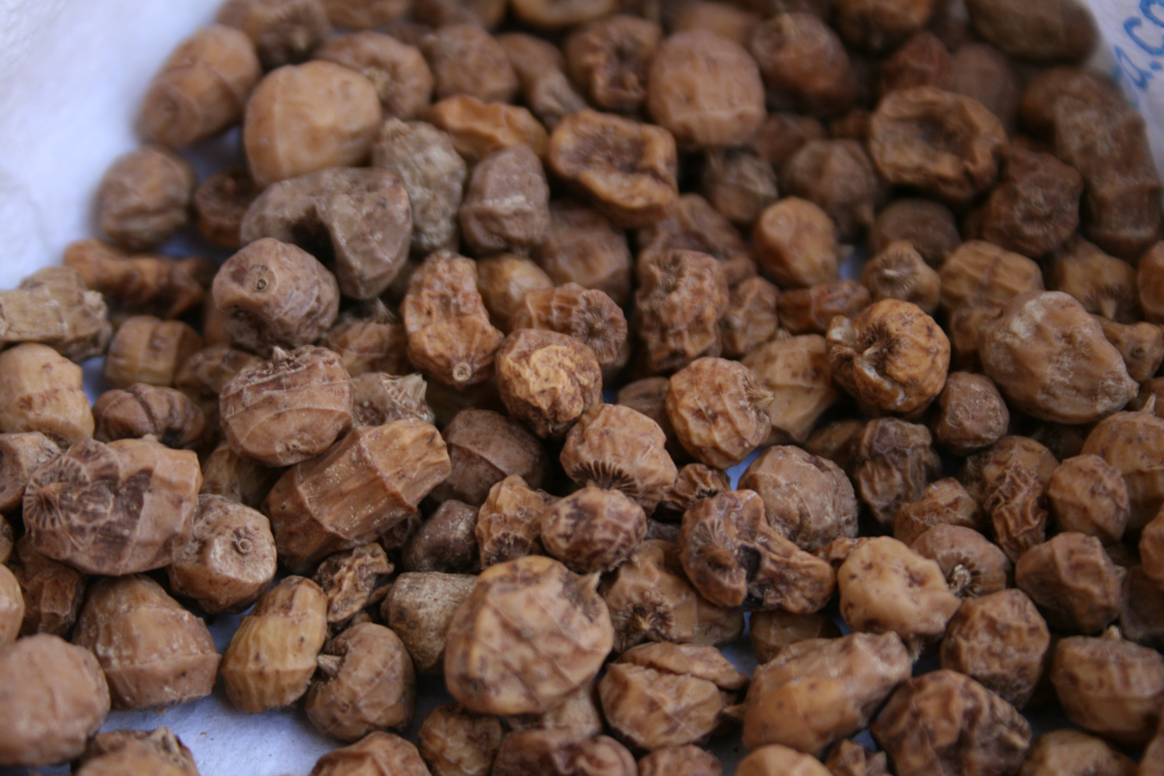 Tiger Nut